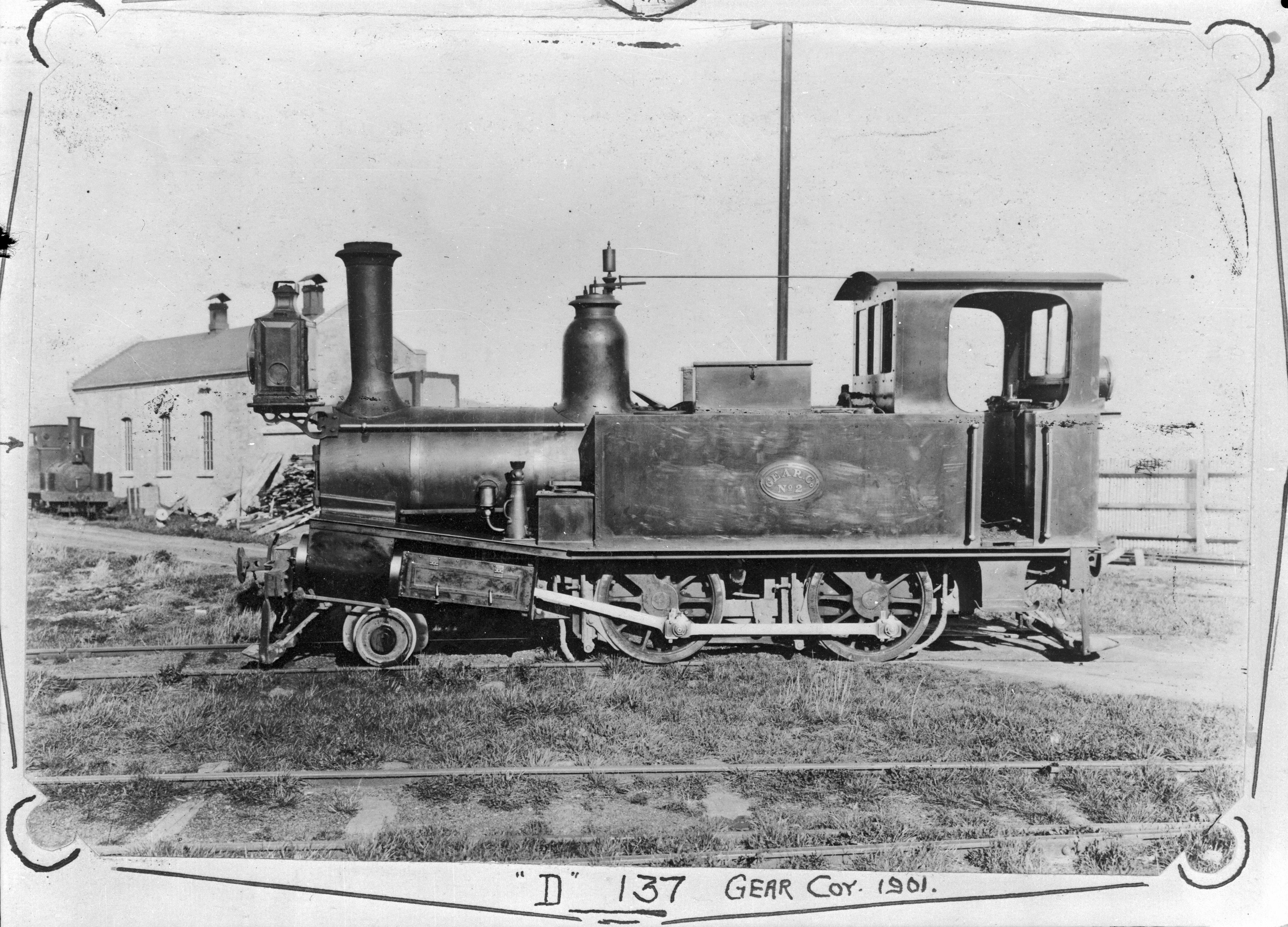 D Class steam locomotive, "D" 137 (2-4-0T), Gear Company, Locomotive No. 2. Photograph taken by Albert Percy Godber in 1901. An old "A" Class locomotive is visible centre left.